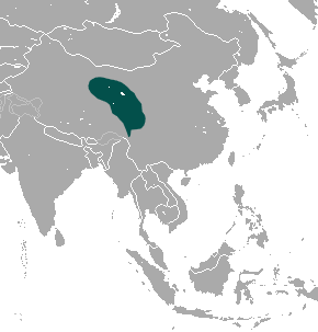 Chinese Red Pika (Ochotona erythrotis) range